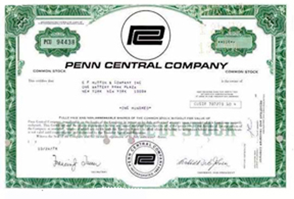 Post-BK Stock Certificate